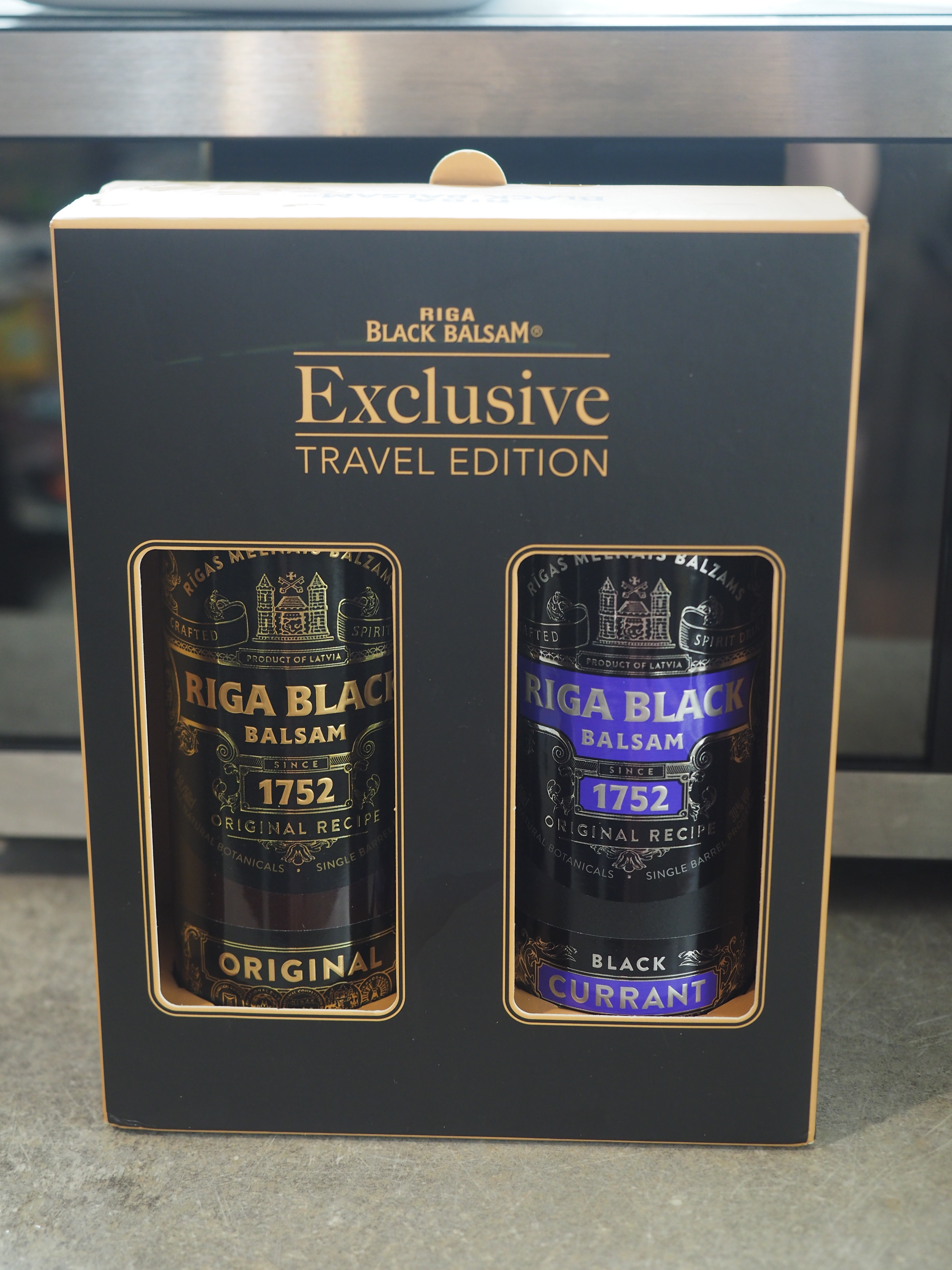 A two-bottle pack of Riga Black Balsam sold as an "Exclusive Travel Edition". The bottle on the left is traditional Riga Black Balsam, the one on the right is flavoured with blackcurrant.